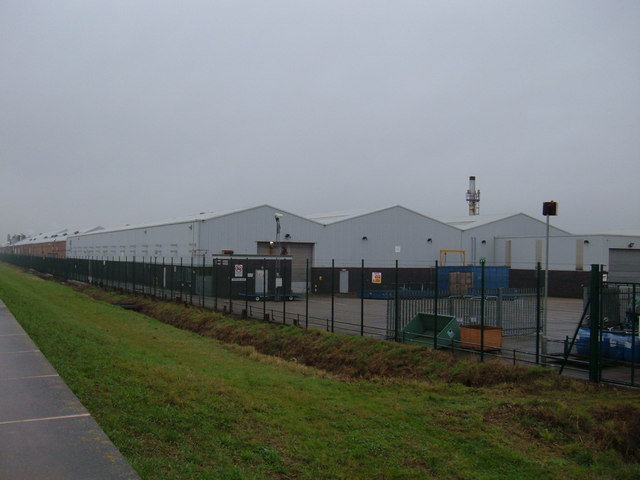 Aircraft Factory, Brough, East Riding of Yorkshire, England.